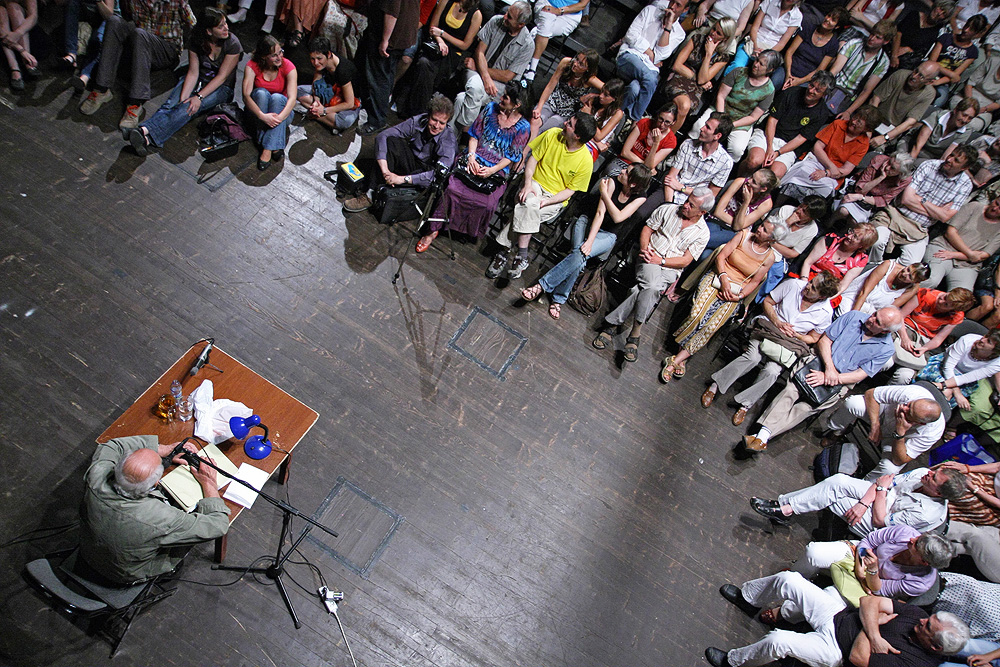 Arnost Lustig, Authors' Reading Month 2009, Brno, Czech Republic, photo by David Konecny